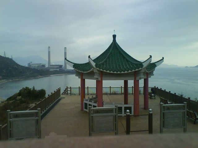 Lung Kwu Tan Chinese White Dolphin Lookout at Tuen Mun, Hong Kong. Photo taken by myself (User:Sl) on 18 February 2007. 香港屯門龍鼓灘中華白海豚瞭望臺，在2007年2月18日拍攝。